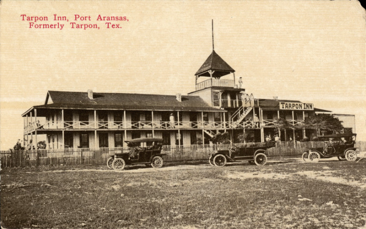 Tarpon Inn, Port Aransas, Texas (motorized vehicles)